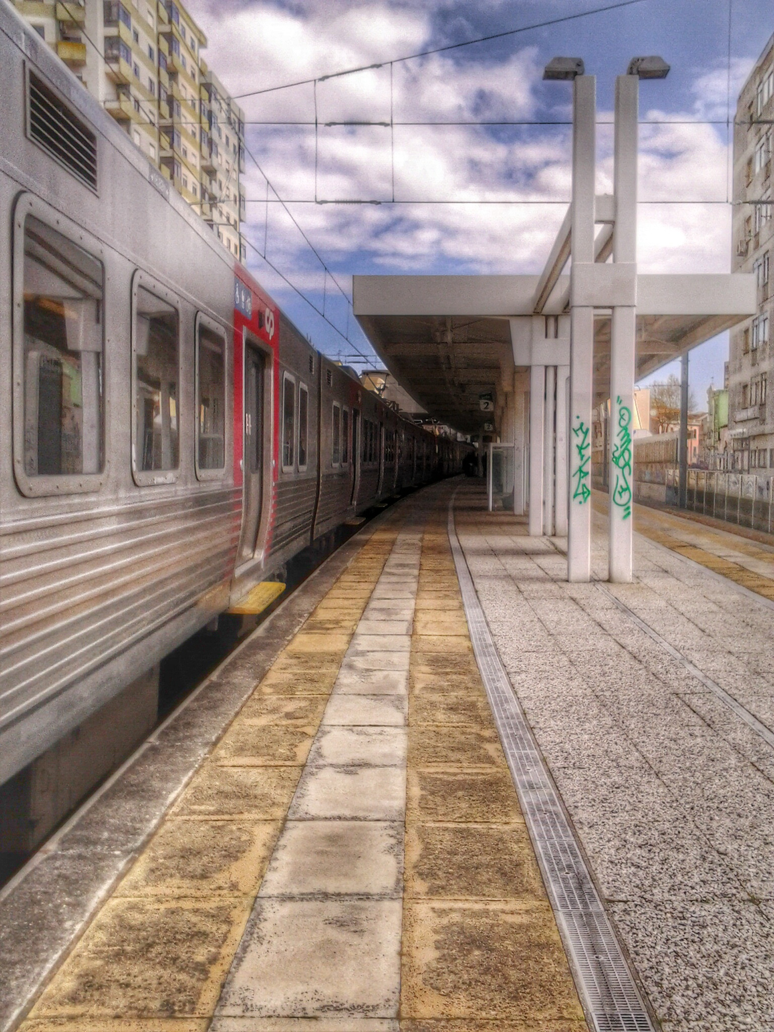 Urban train, Lisbon to Sintra